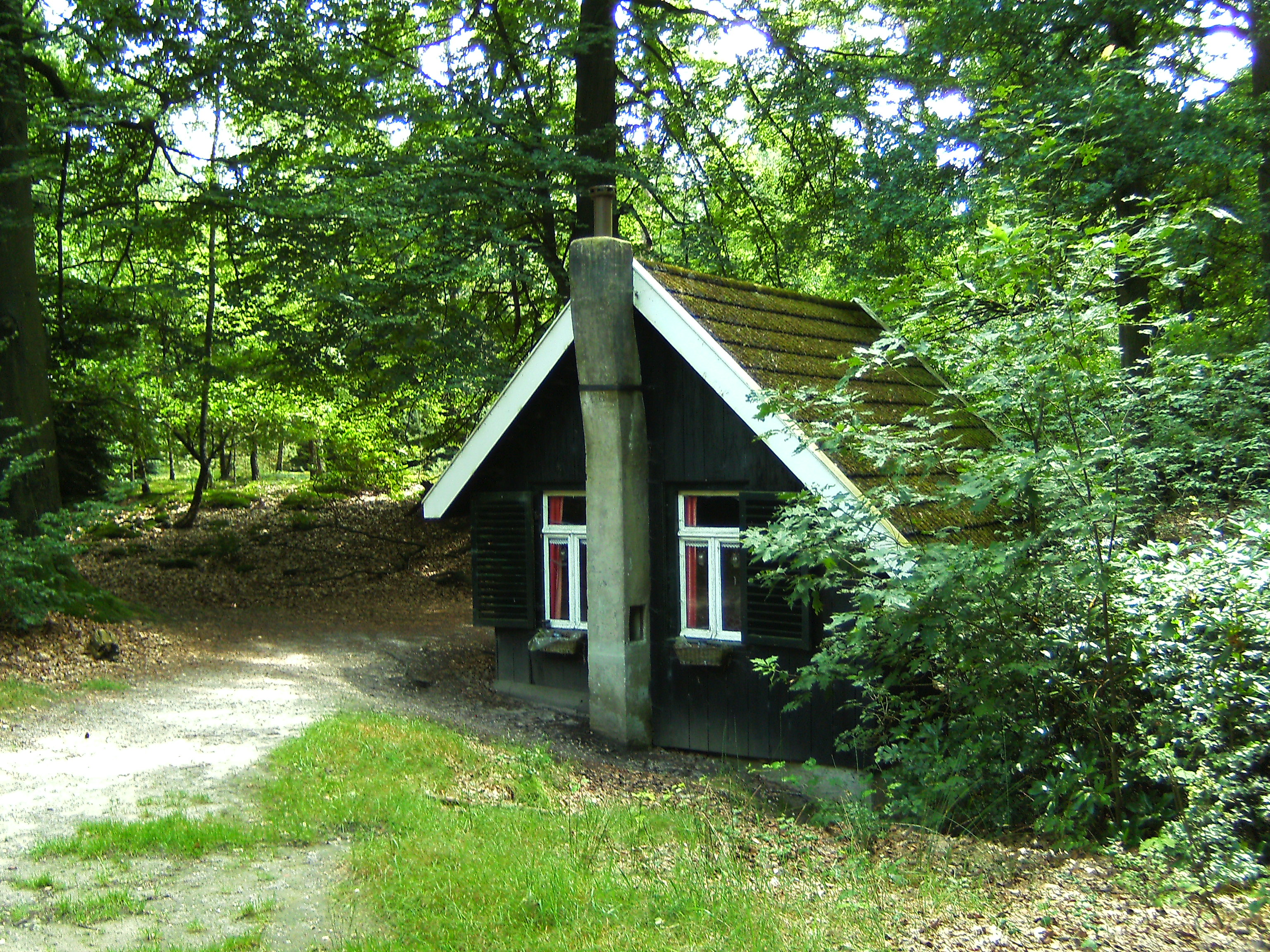 Bathing house there used to be a small bathing pool adjacent. Situated on early 20th century estate Sprengenberg